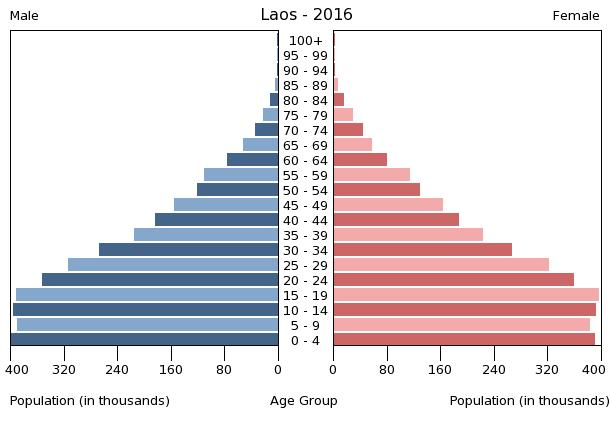 The population pyramid of Laos illustrates the age and sex structure of population and may provide insights about political and social stability, as well as economic development. The population is distributed along the horizontal axis, with males shown on the left and females on the right. The male and female populations are broken down into 5-year age groups represented as horizontal bars along the vertical axis, with the youngest age groups at the bottom and the oldest at the top. The shape of the population pyramid gradually evolves over time based on fertility, mortality, and international migration trends.